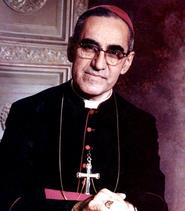 Óscar Arnulfo Romero y Galdámez in 1978 on a visit to Rome. Photo first published in the Republic of Italy in the same year. It was also used by the Office for the Canonization Cause of Romero of the San Salvador Archdiocese